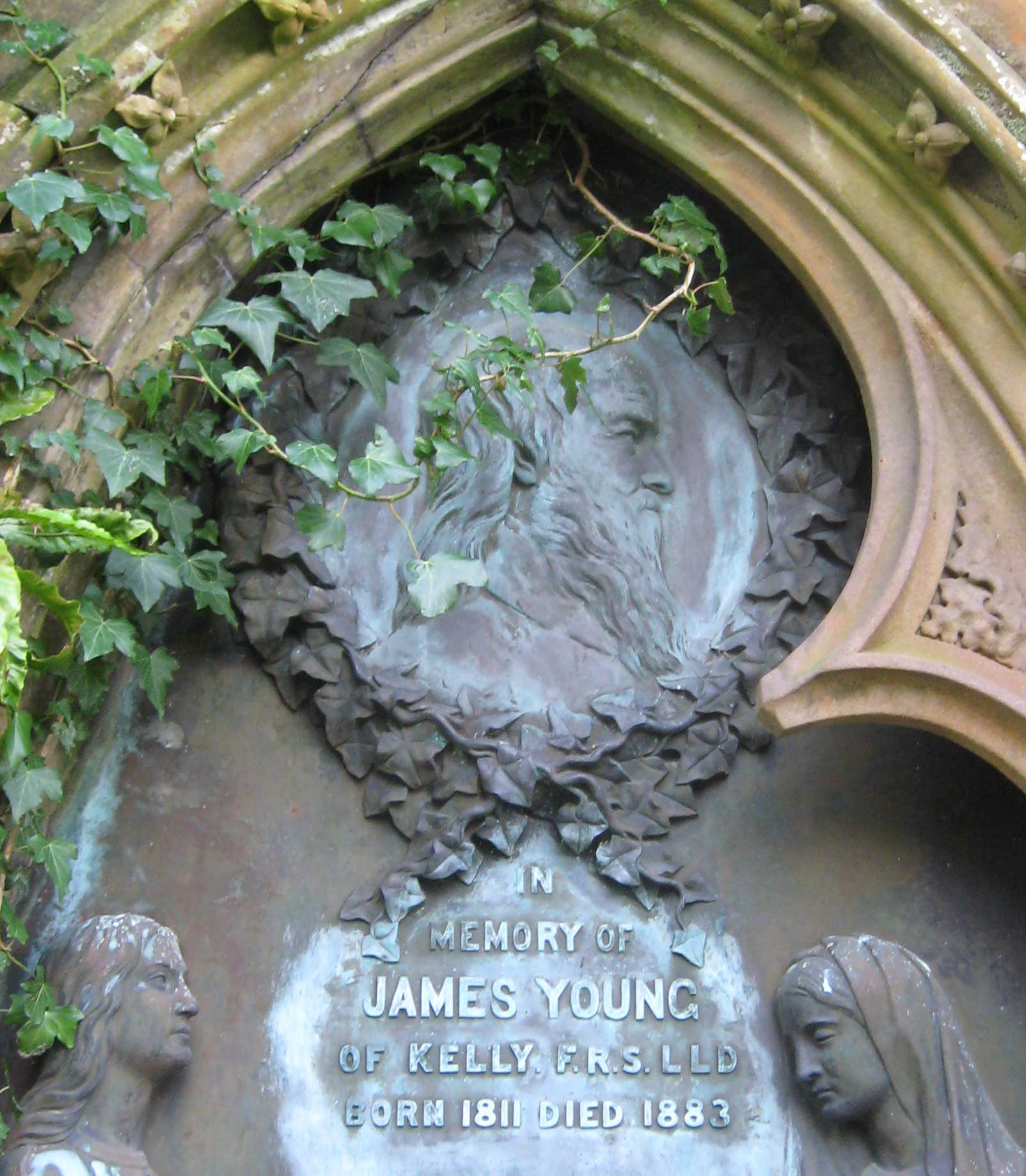 Tombstone detail showing relief portrait bust of James Young (Scottish chemist) ("Paraffin Young"), in Inverkip churchyard